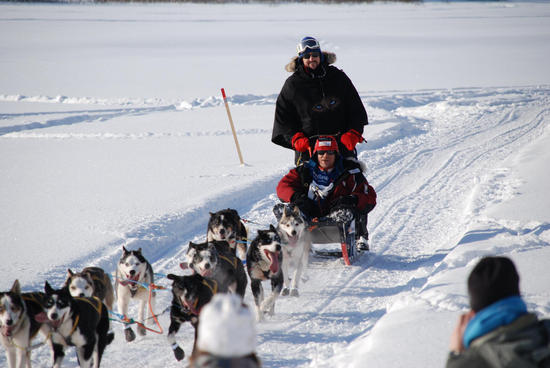 Finnmarkslopet, dog sledge race. The prince of Norway running a sledge